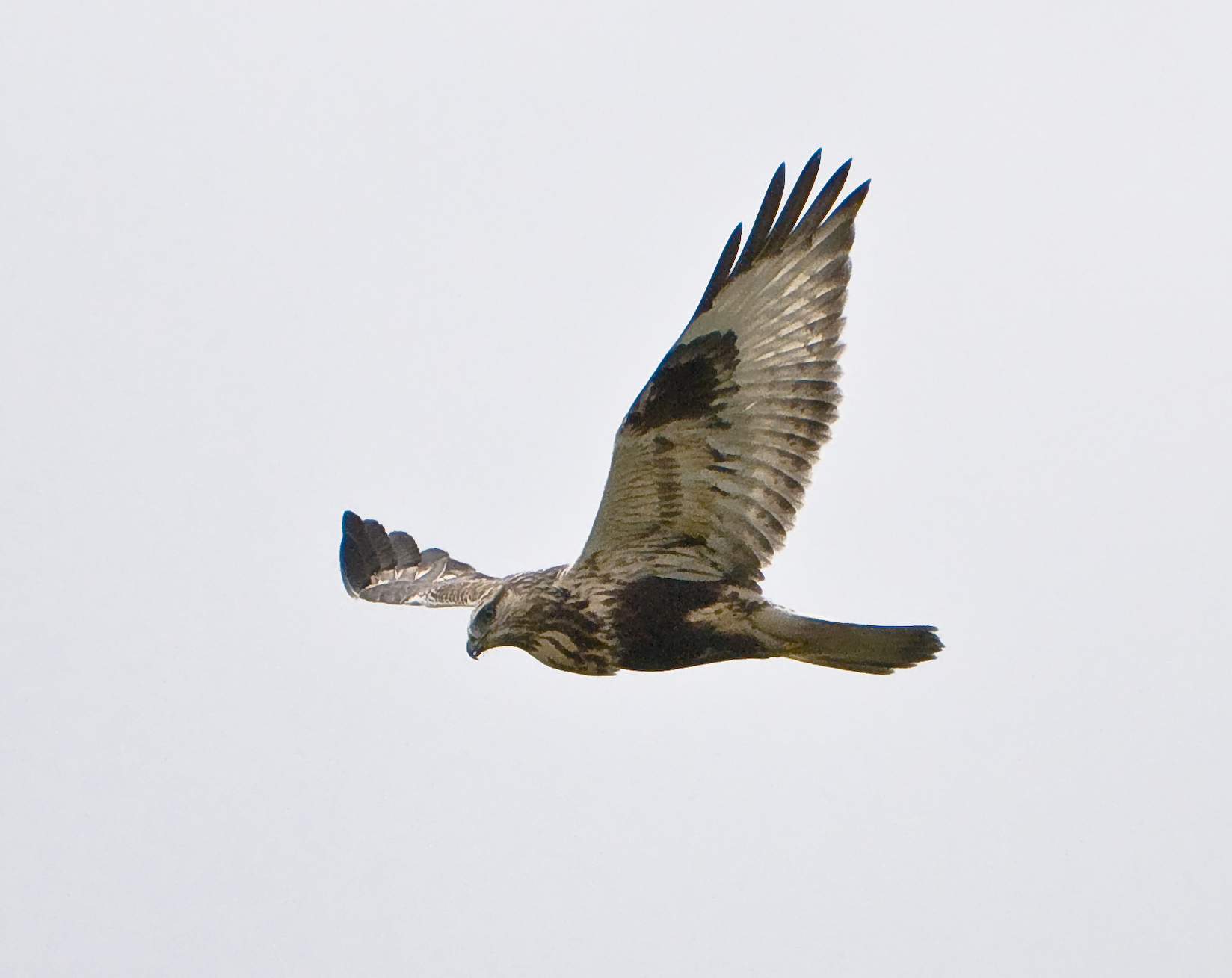 Buteo lagopus, Iona, British Columbia